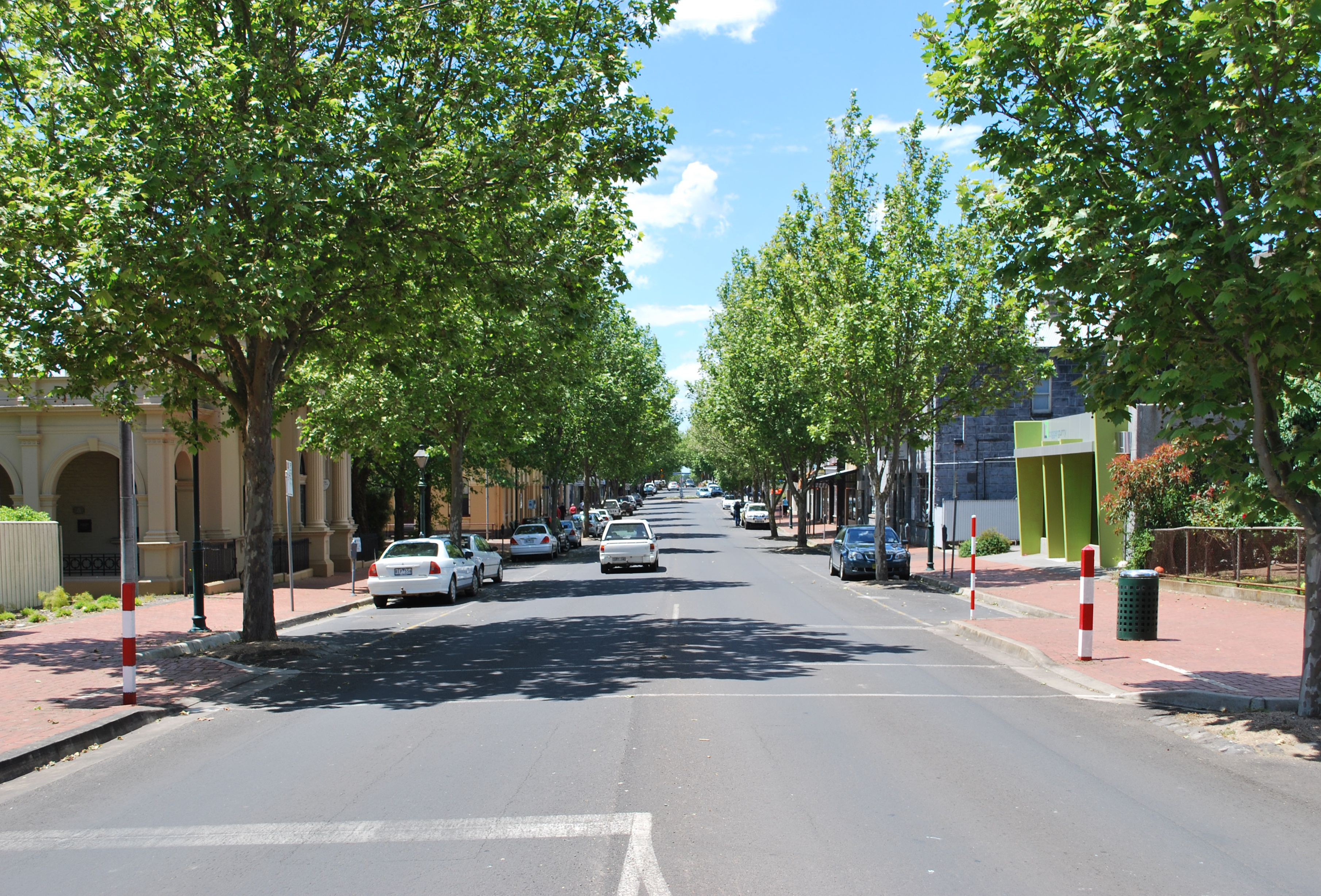 Grey St, one of the main streets of Hamilton, Victoria